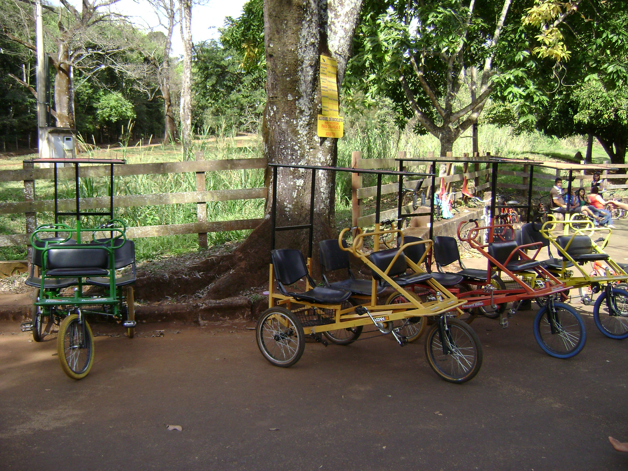 Triciclo para duas ou mais pessoas, no Ouro Minas Grande Hotel e Termas de Araxá, em Araxá, Minas Gerais, Brasil.